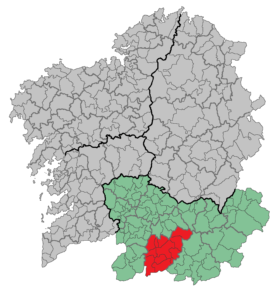 Region of Galicia (Spain)Based in: Image:Location of Betanzos.png Source: Designed by Leoplus. Original picture, designed by Caiser over a work made by Alyssalover.